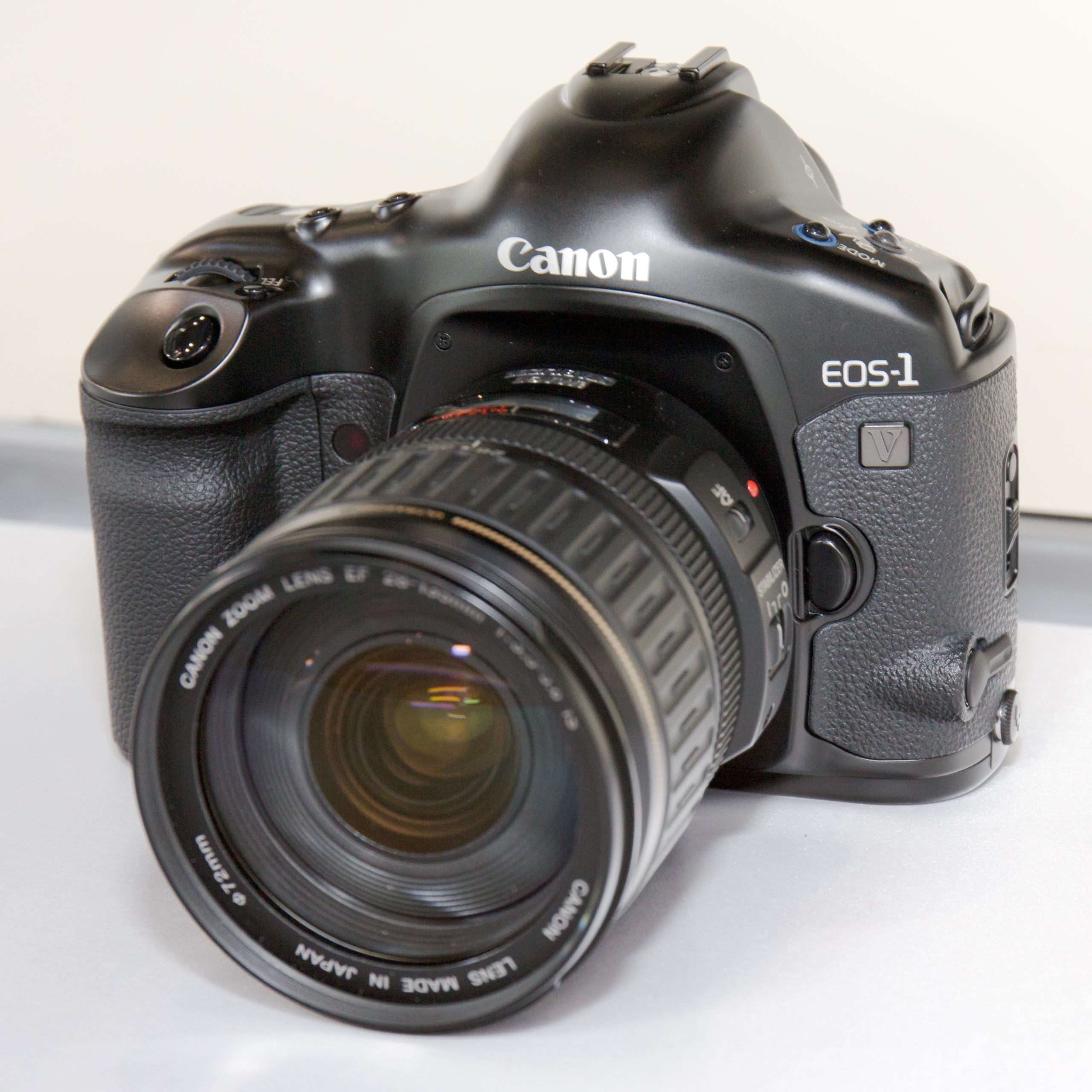 CP+ 2013: 2001 Canon EOS-1v